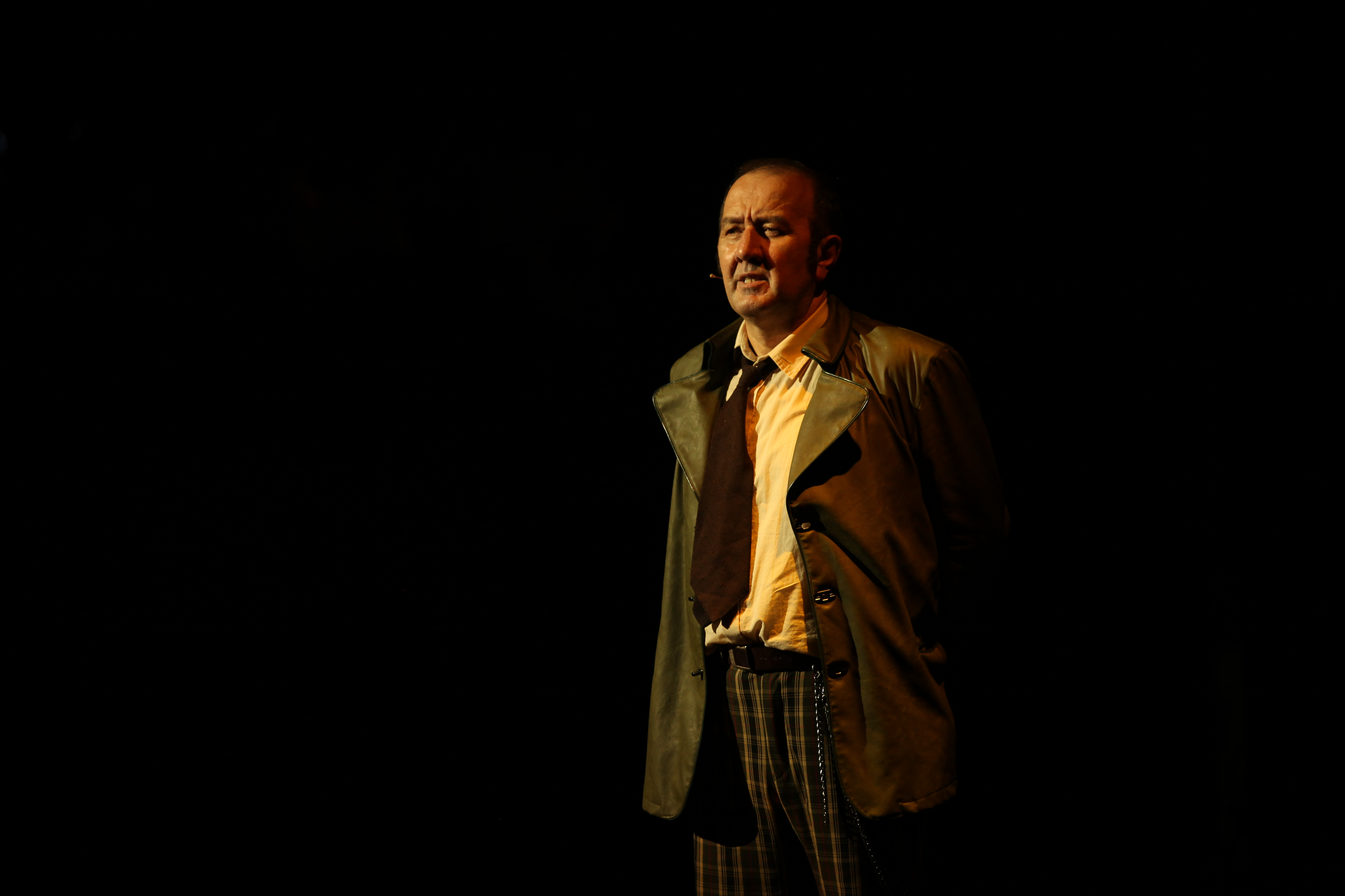 Premiere of the "Sweet Charity"